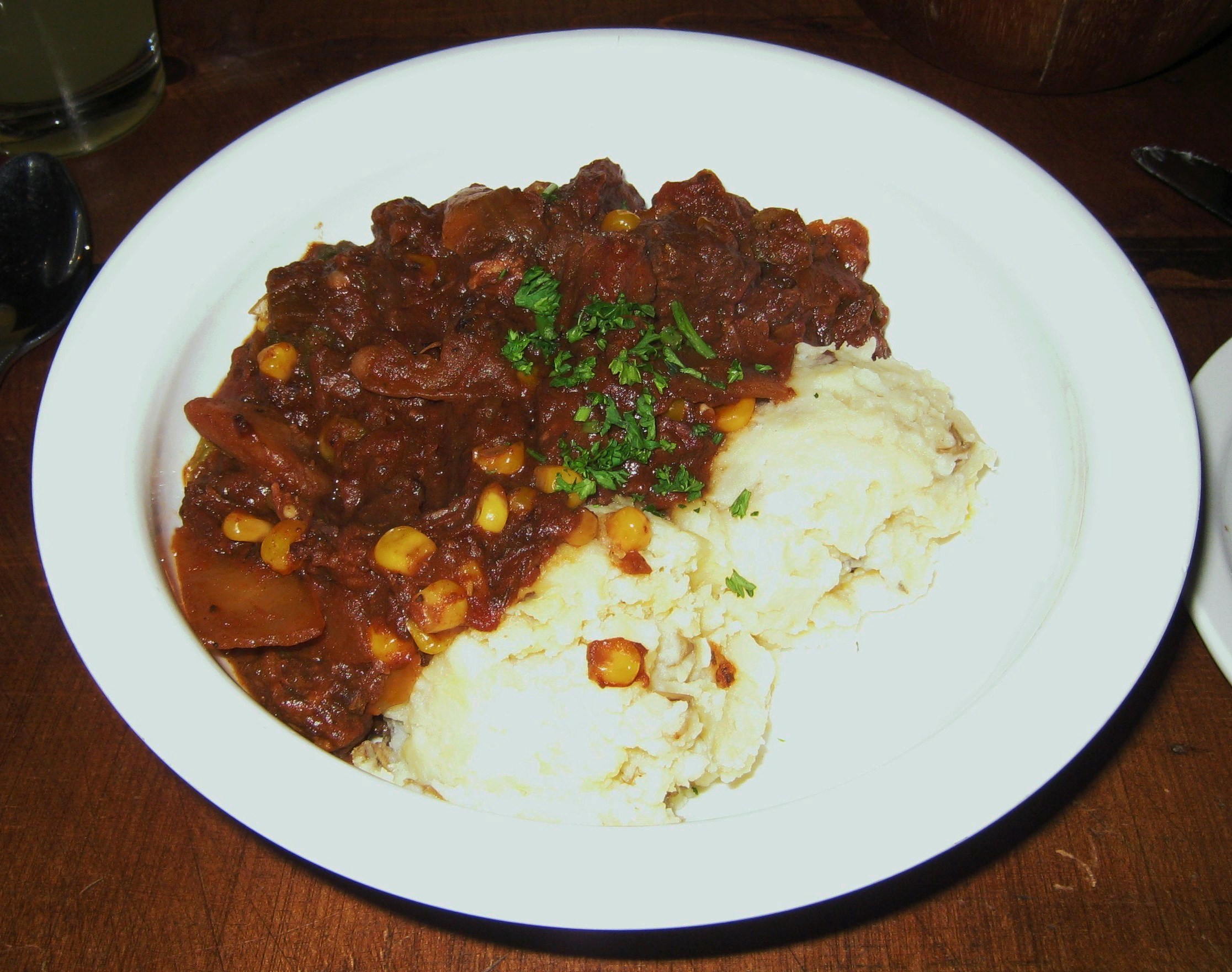 Kentucky Burgoo - $14